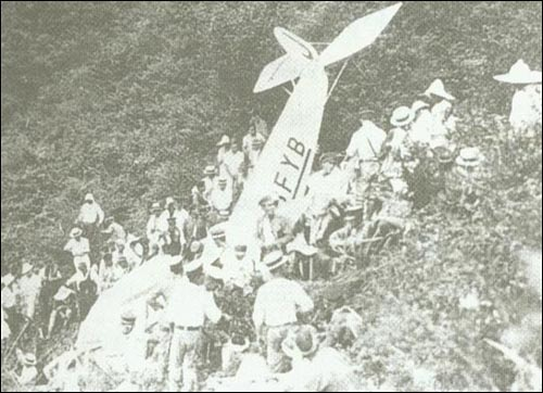 A picture of Park Kyung-won's crash site near Hakone, Kanagawa taken by the Imperial Japanese Army who recovered her body from the scene, and then published in Japanese newspapers of the time